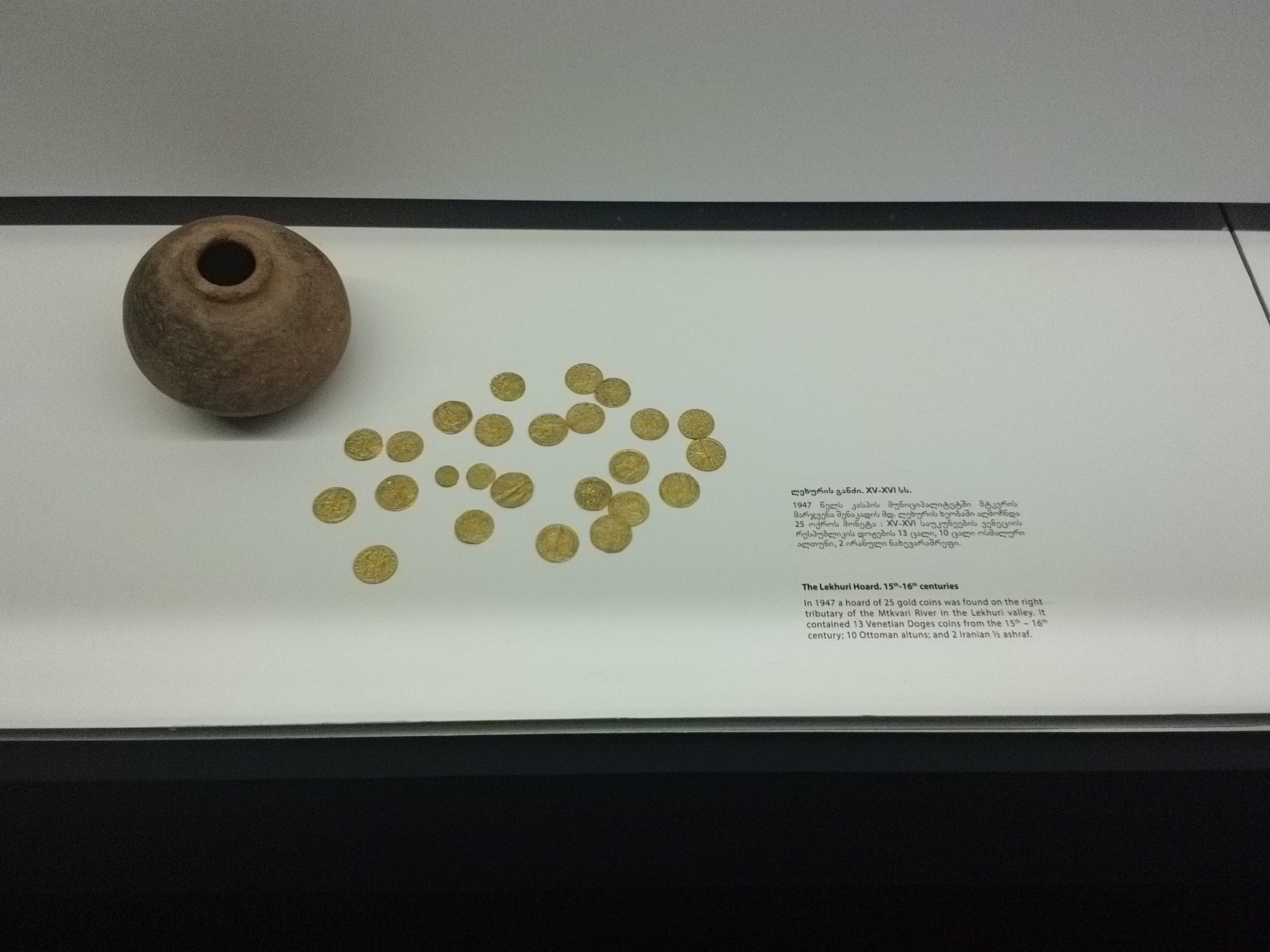 The Lekhuri Hoard